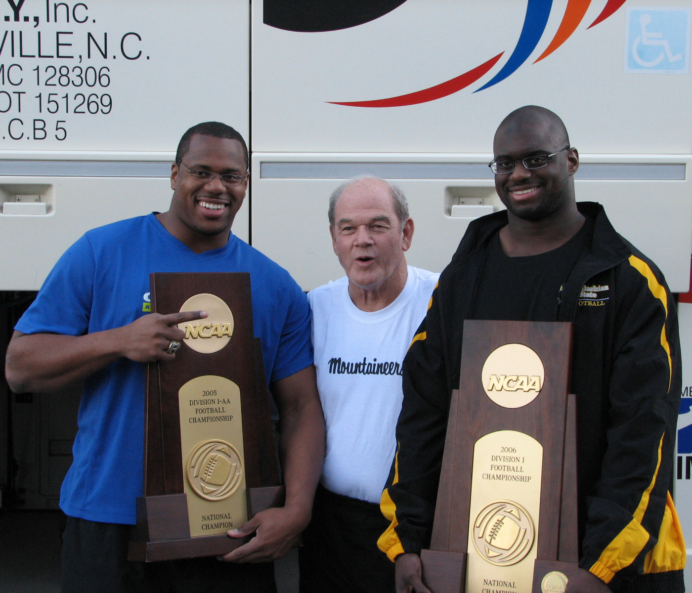 Photo taken myself on 12-16-2006.